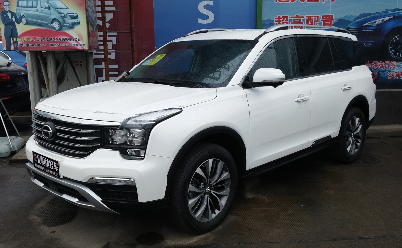 GAC Trumpchi GS8 photographed in Wuhan, Hubei province, China.